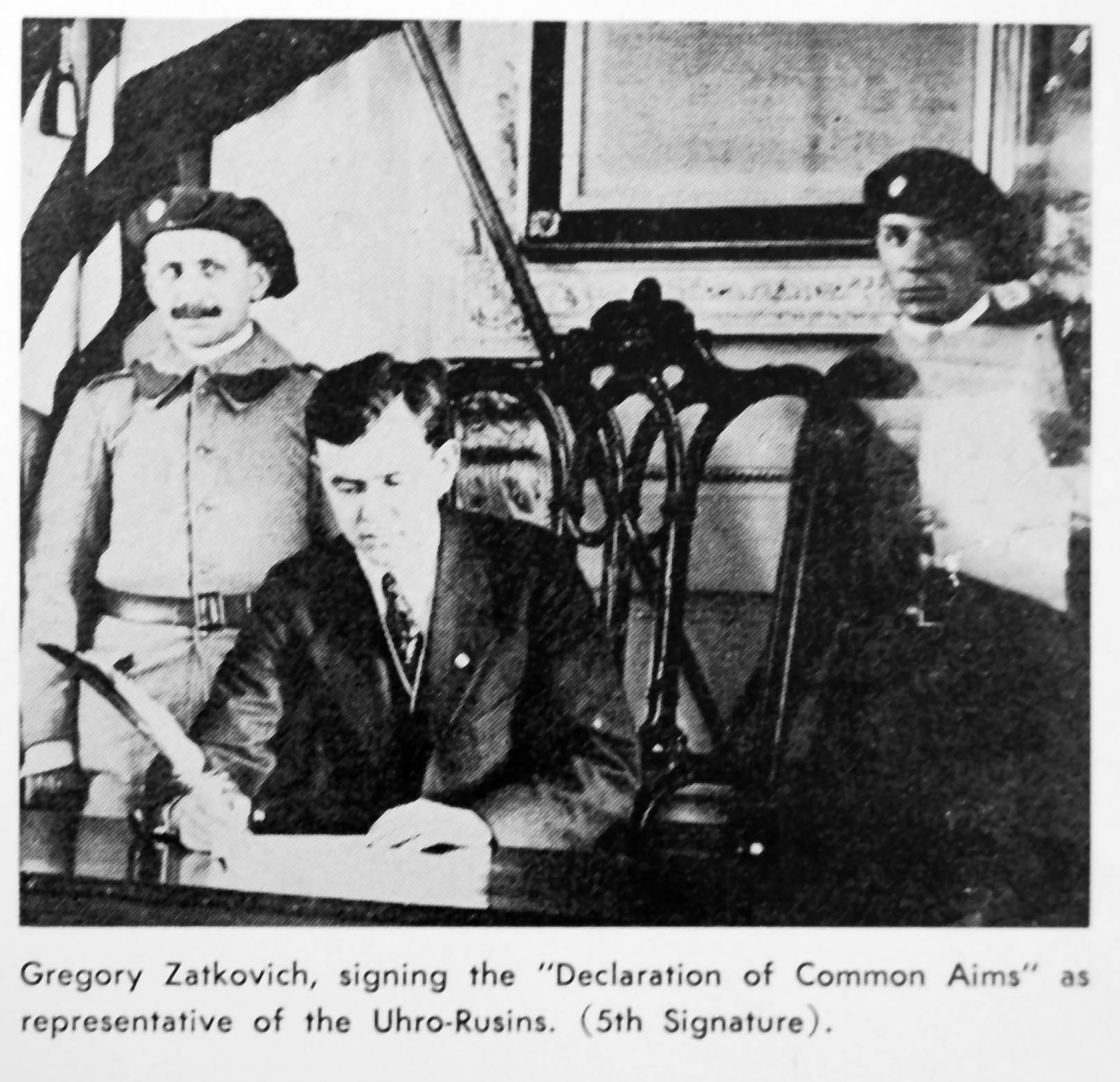 Gregory Žatkovich signing the Declaration of Common Aims at Independence Hall, Phila. PA